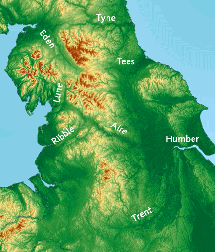 Topographic Map of the UK; Mercator projection, 1.750 x 2.545 px (blank w/out dots).